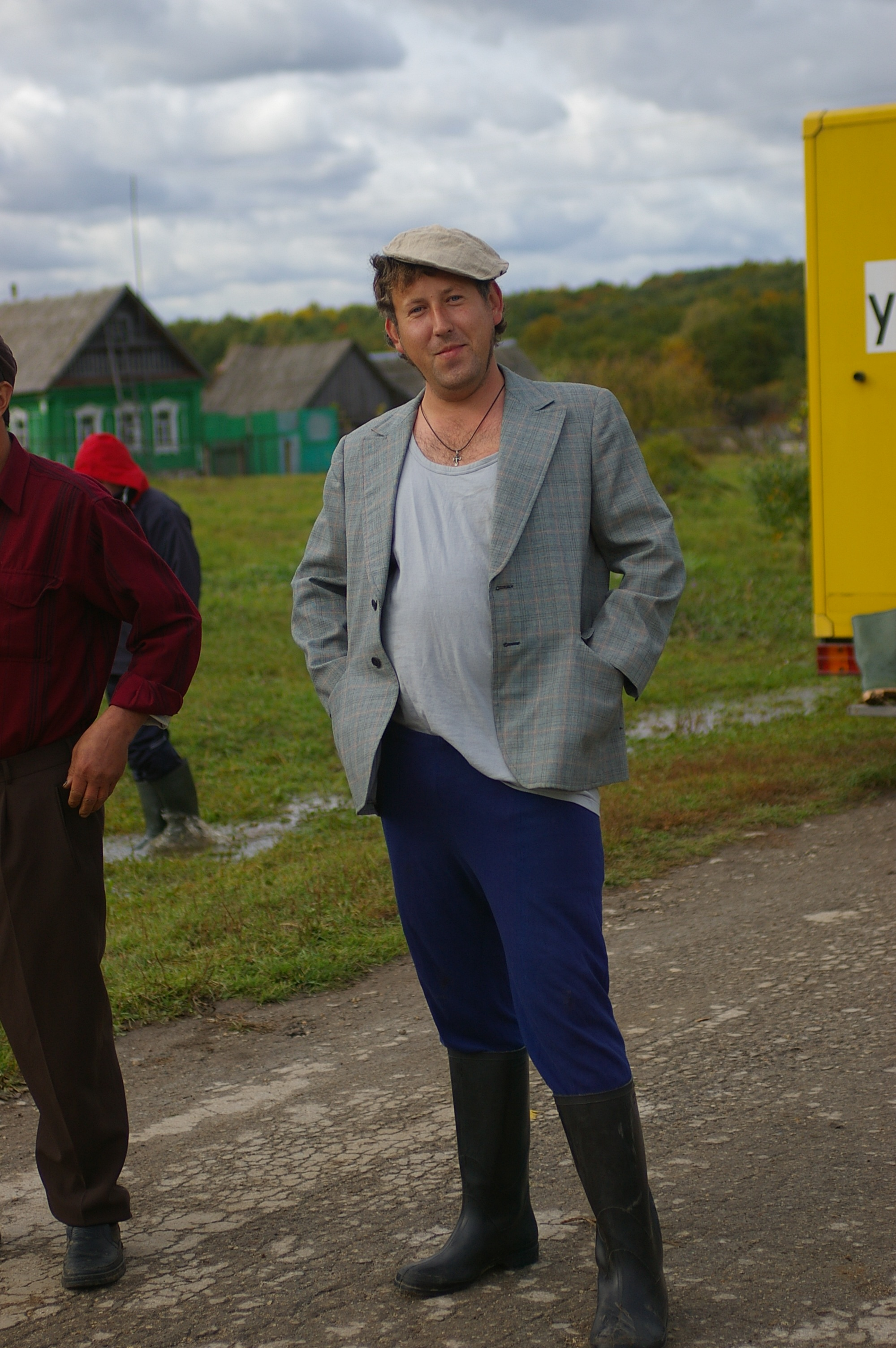 Filmmaking of Russian file “Любовь. Олимпиада. Рок-н-Ролл